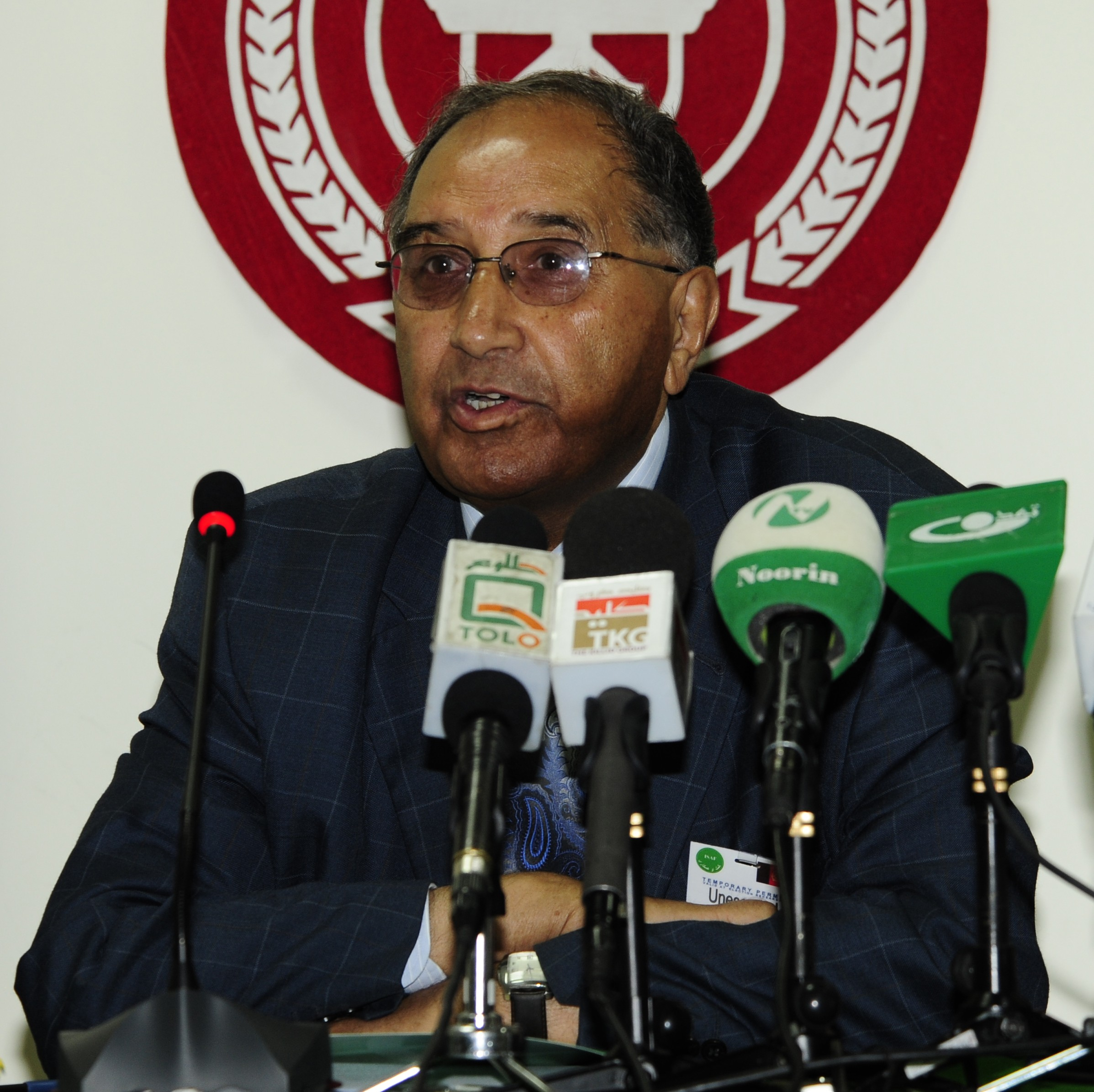 KABUL, Afghanistan-- International Election Committee official Mr. Azizullah Ludin speaks at a press conference on Security for the upcoming Afghan elections. Photo by MSgt Chris Haylett